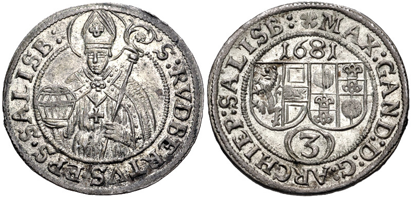 AUSTRIA, Salzburg (Erzbistum). Max Gandolph von Küenburg. 1668-1687. AR 3 Kreuzer (21mm, 1.67 g, 13h). Dated 1681. Facing half-length bust of St. Rupert, holding salt cellar and croizer / Conjoined coats-of-arms. Probszt 1687; KM 228. EF, lightly toned.